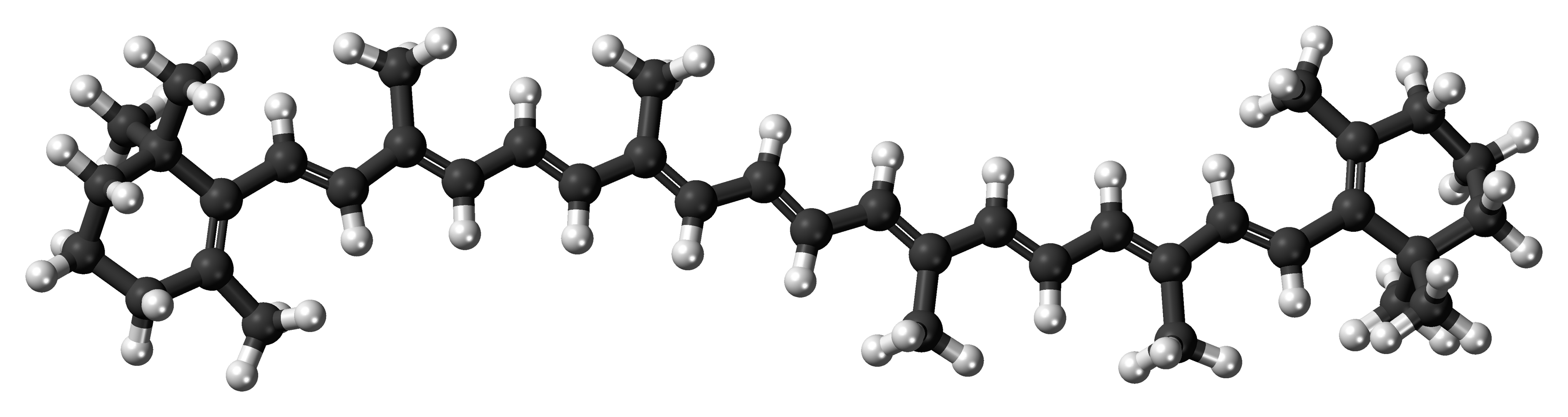 Ball-and-stick model of the β-carotene molecule, one of several plant dyes called carotenes, of which β-carotene is the most common. Colour code: Carbon, C: black Hydrogen, H: white